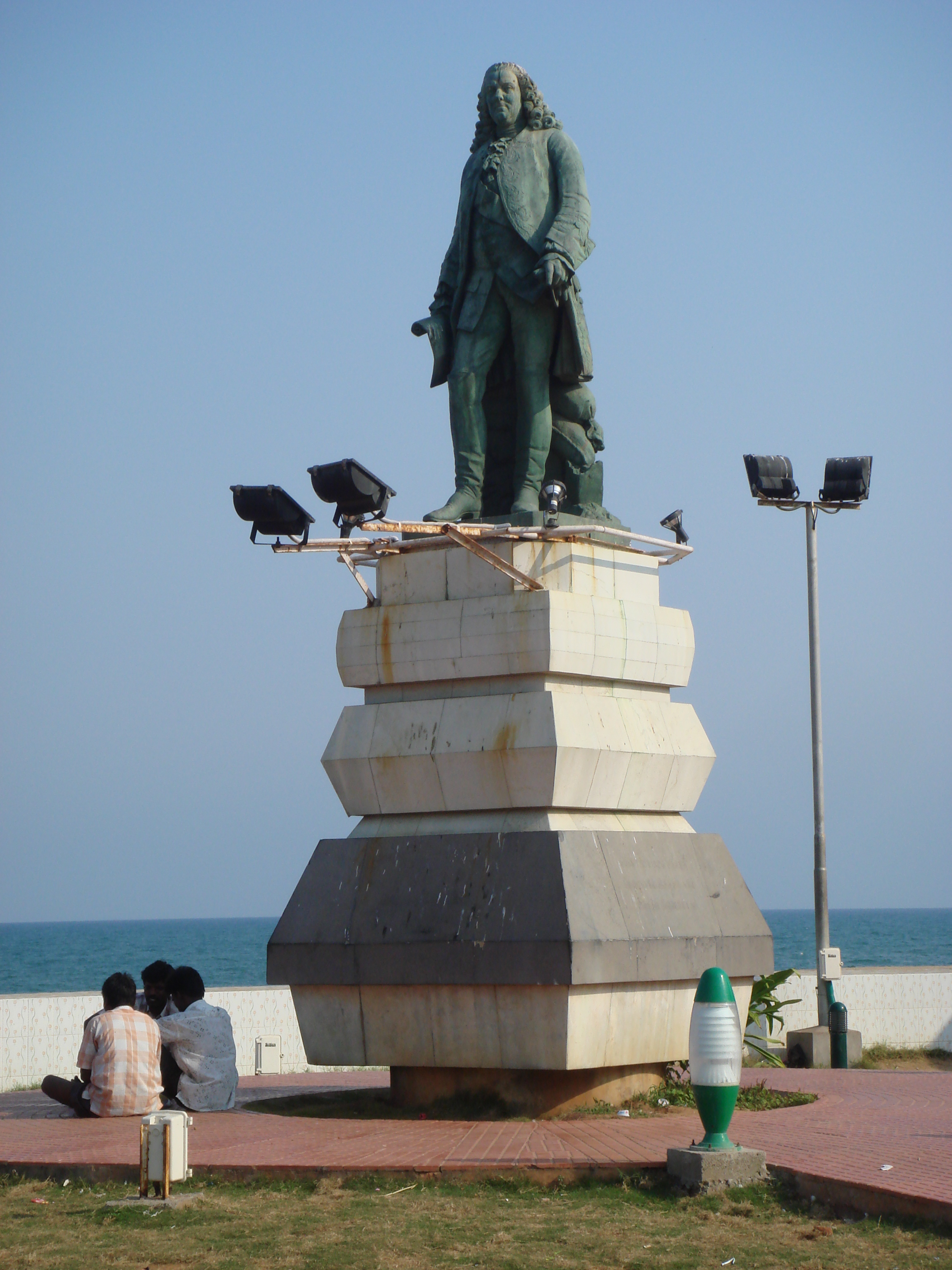 Statue of Joseph François Dupleix in Puducherry (India).